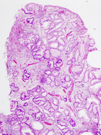 Histopathologic image of hyperplastic foveolar polyp of the stomach. Hematoxylin & eosin stain.